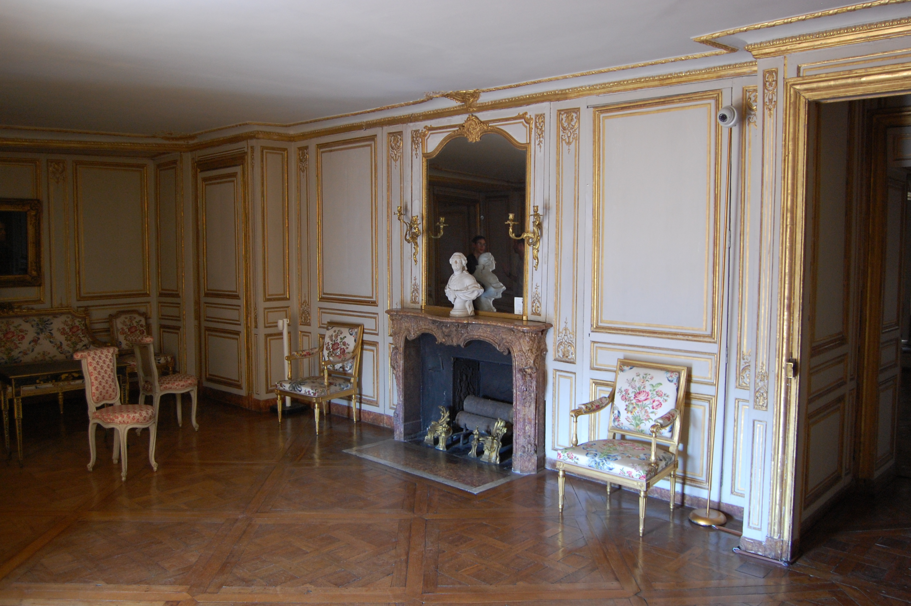 Antechamber of the apartement of madame Du Barry